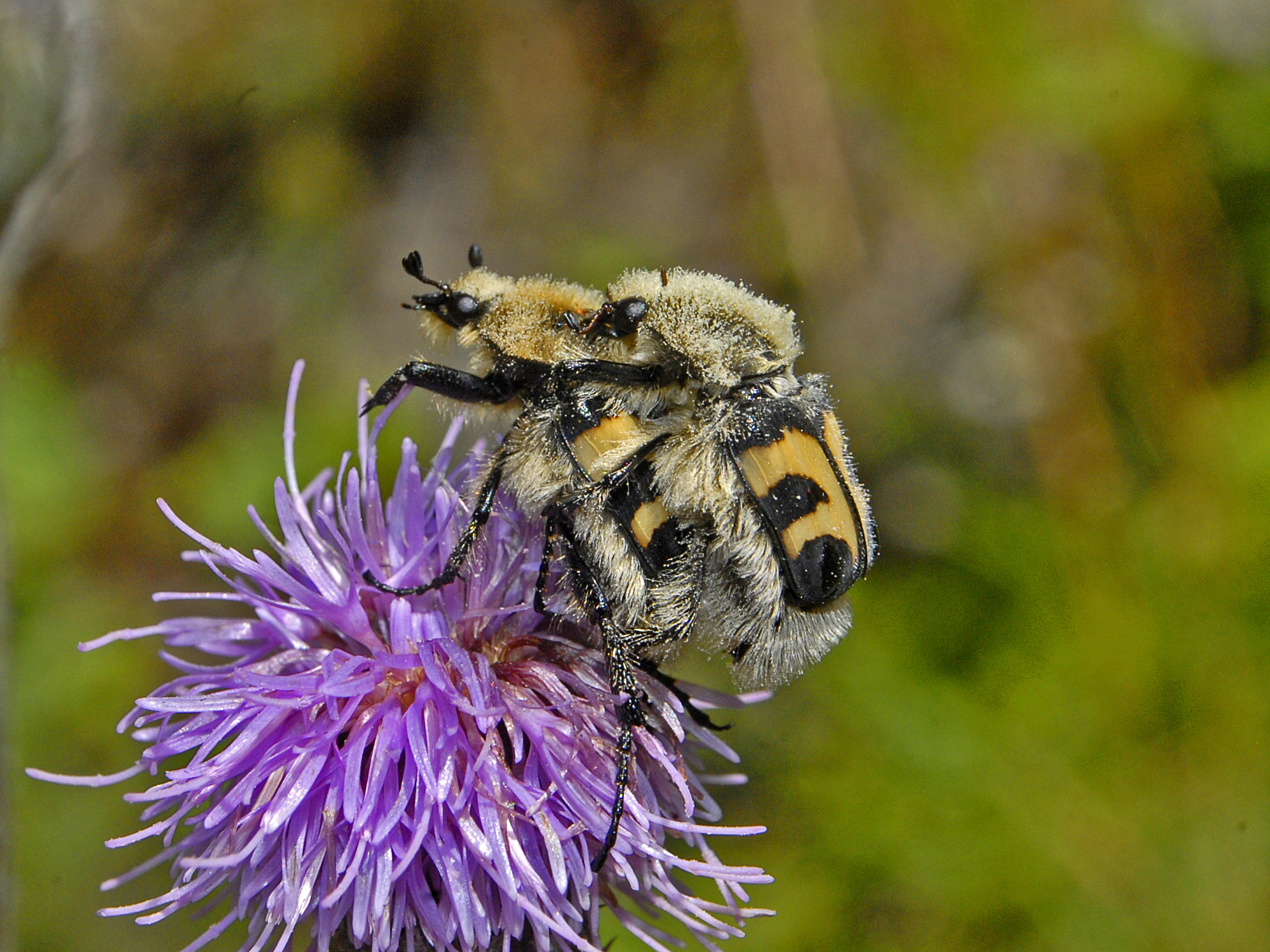 Trichius fasciatus, mating couple. Val di Rhemes, Aosta, Italy